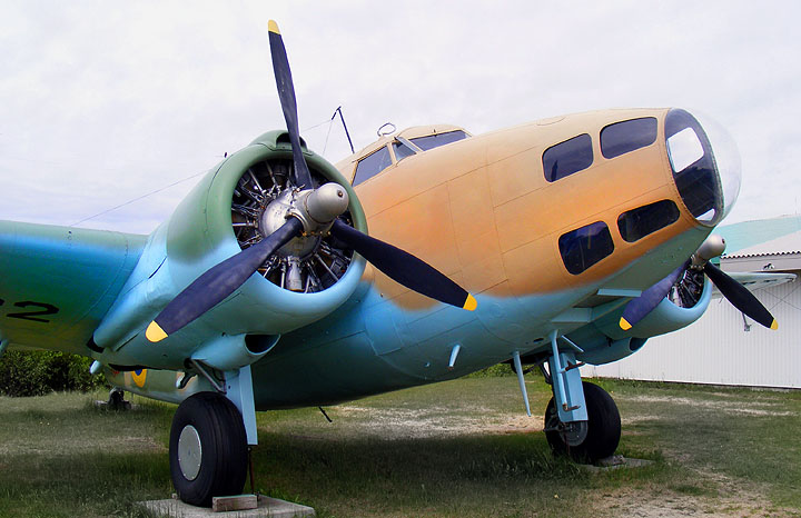 Lockheed Hudson , at the North Atlantic Aviation Museum , NflL [foto-Paul B. Toman]